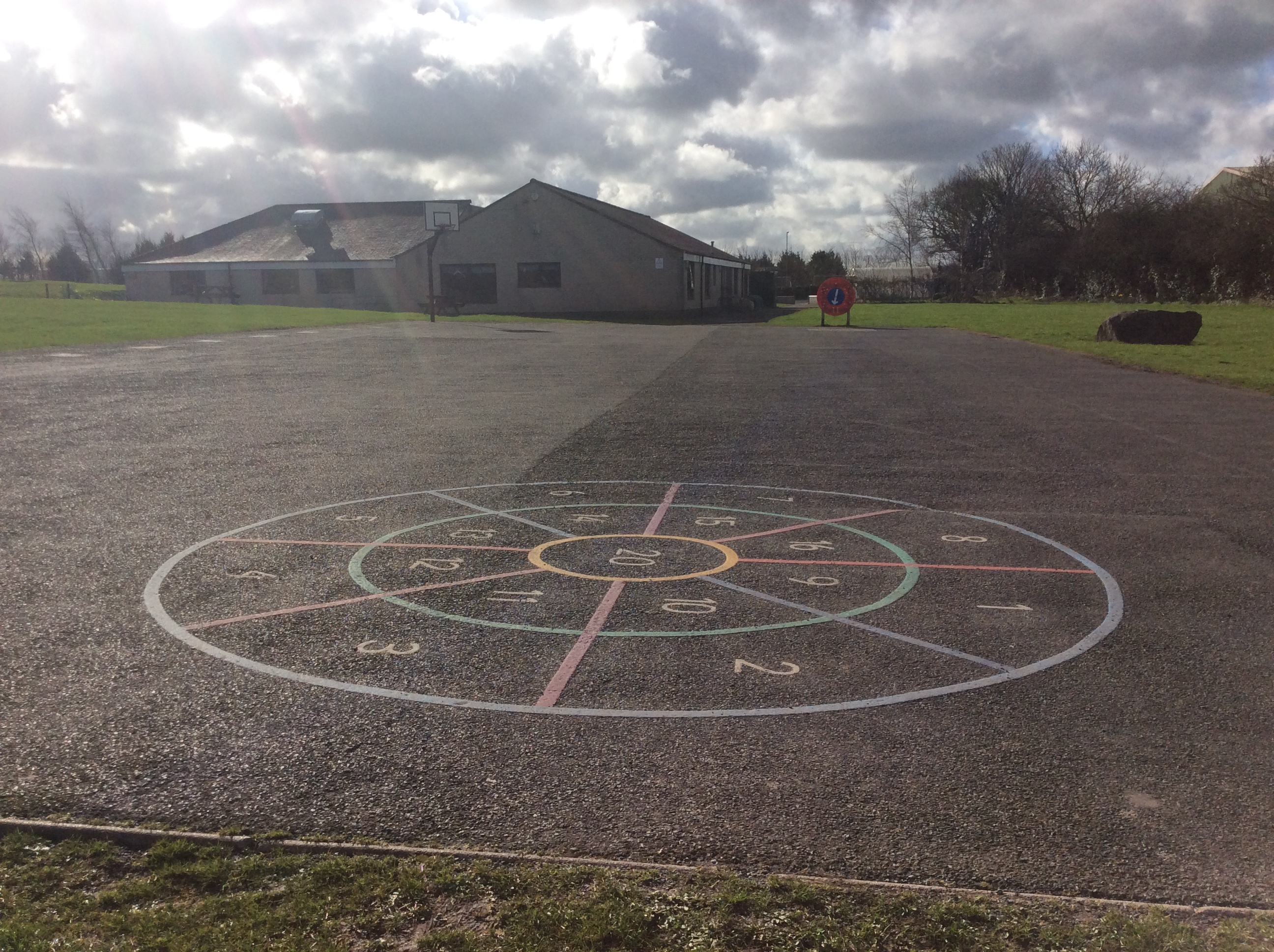 Picture of Esceifiog Gaerwen